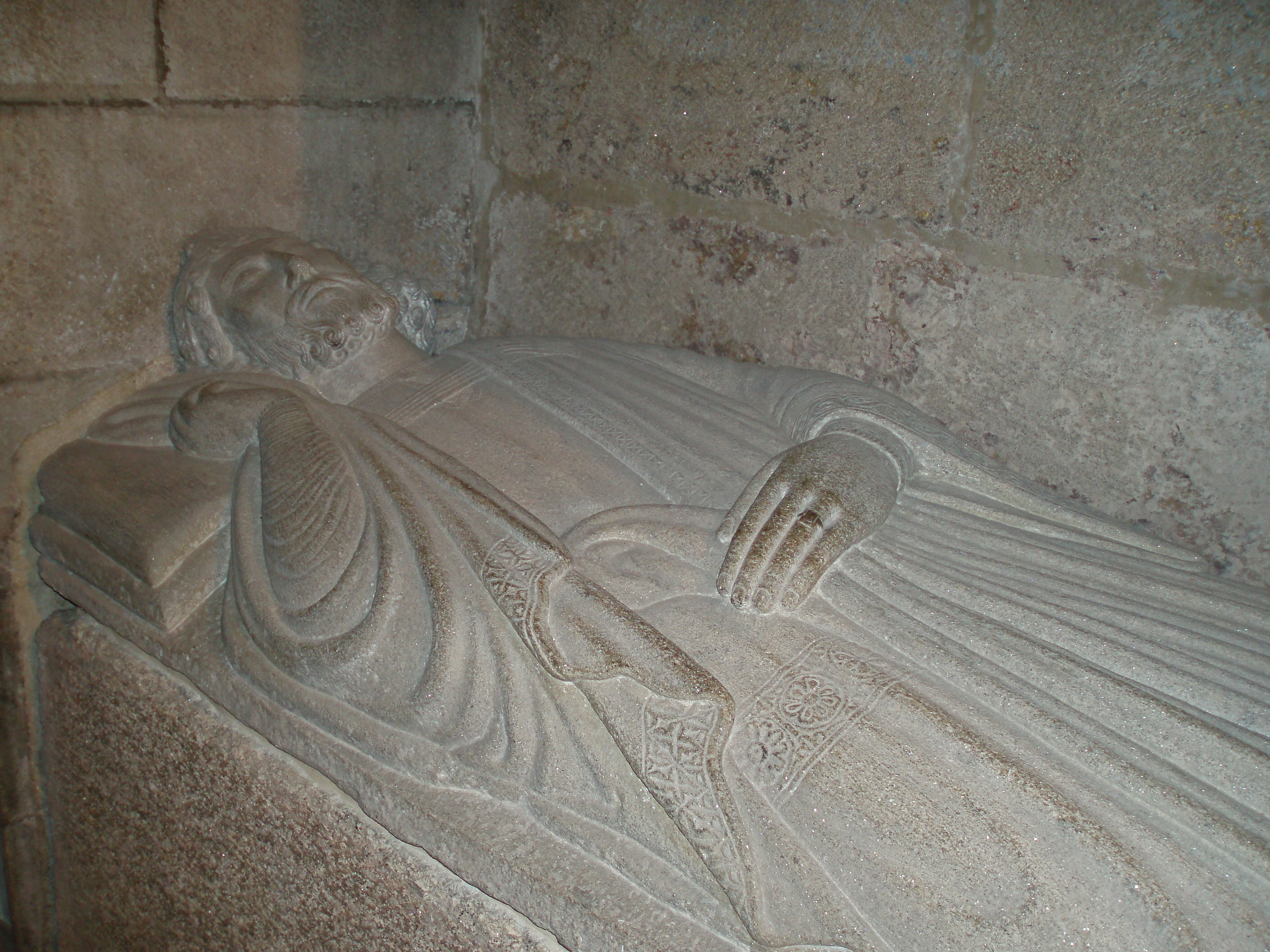 Tomb of king Afonso VIII (1188 - 1230), in the Royal Chapel of the Cathedral of Santiago de Compostela.